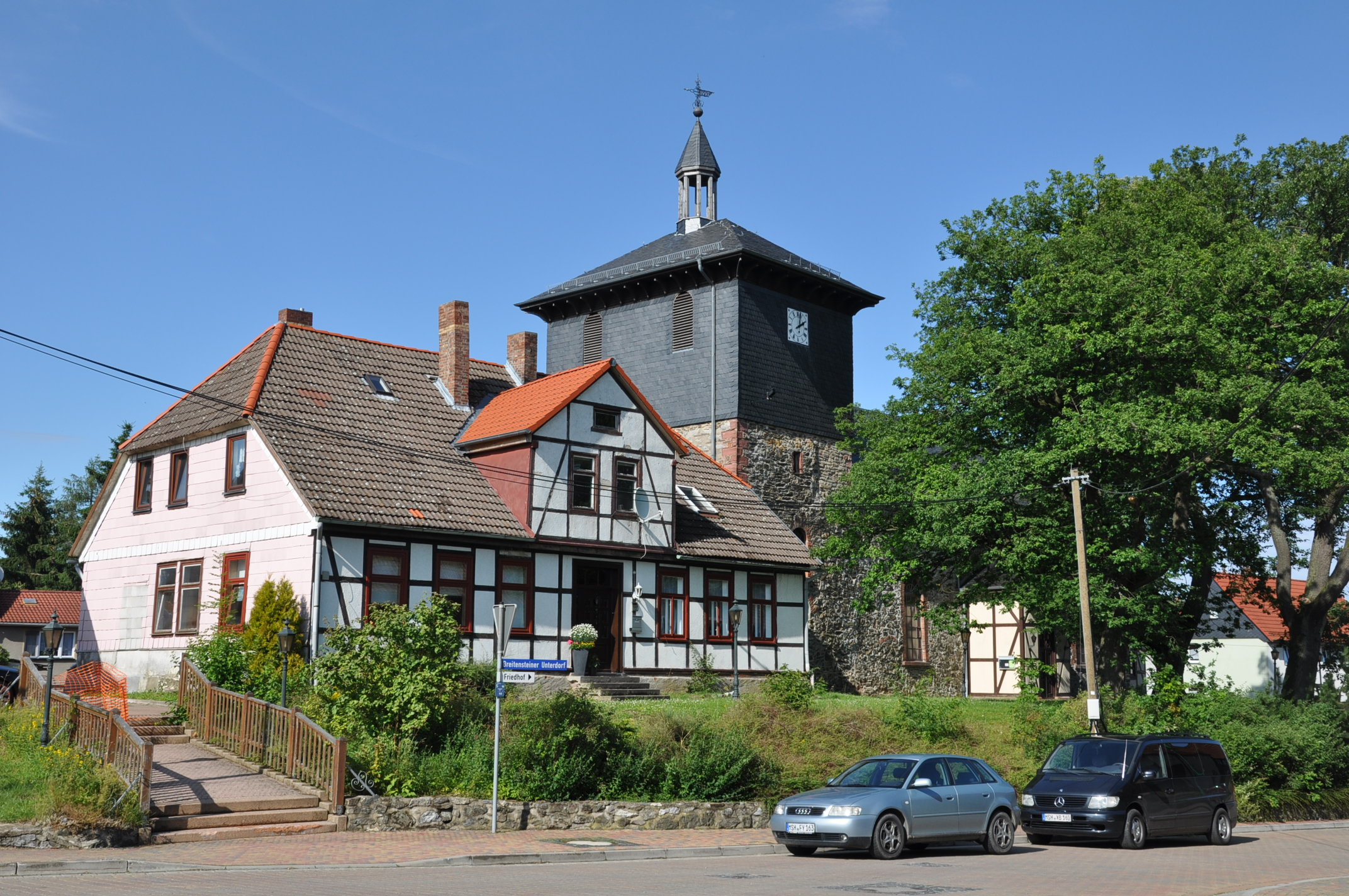 House and church in Breitenstein (municipality Südharz, district Mansfeld-Südharz, Saxony-Anhalt, Germany).